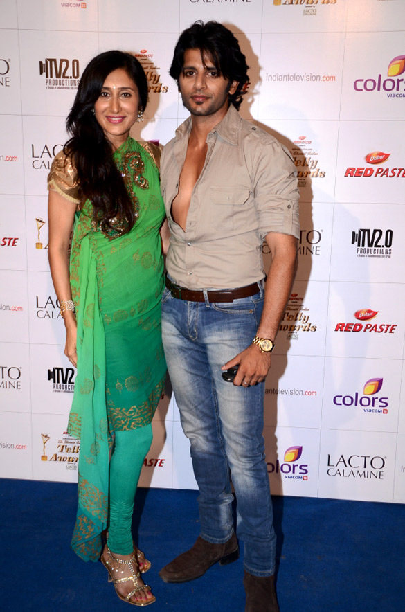 colors indian telly awards